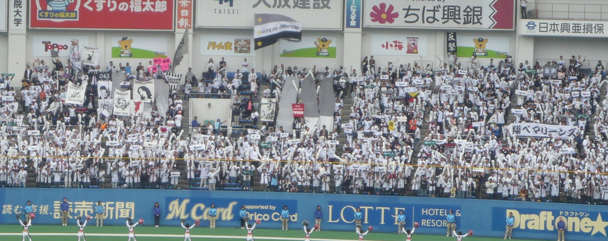 Marines Fans. 2008/05/04 (Chiba Lotte Marines vs Saitama Seibu Lions)Seventh-inning stretch